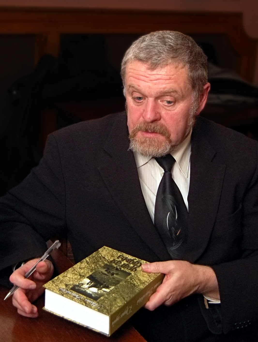 Mikhail Borisovich Boguslavsky with his roman “Drugaya Sudba” (Another Fate).